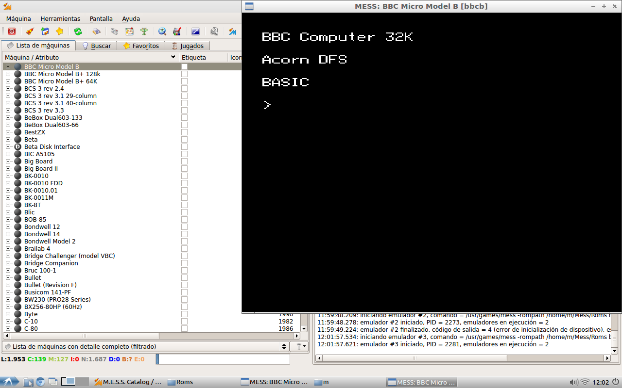 Multi-emulator MESS with the front-end QMC2 emulating a BBC Micro in Lubuntu.